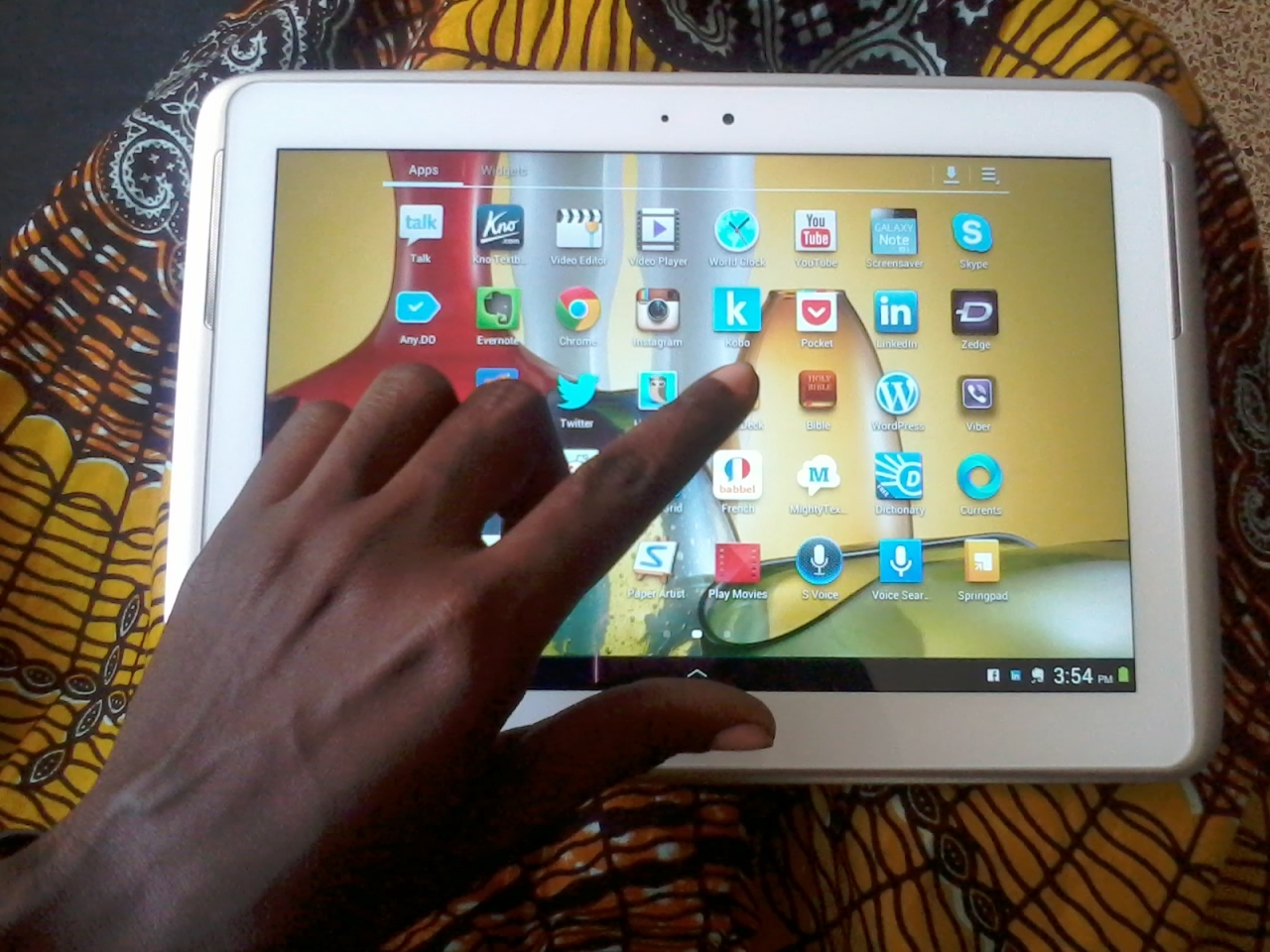 Ghanaian using a tablet